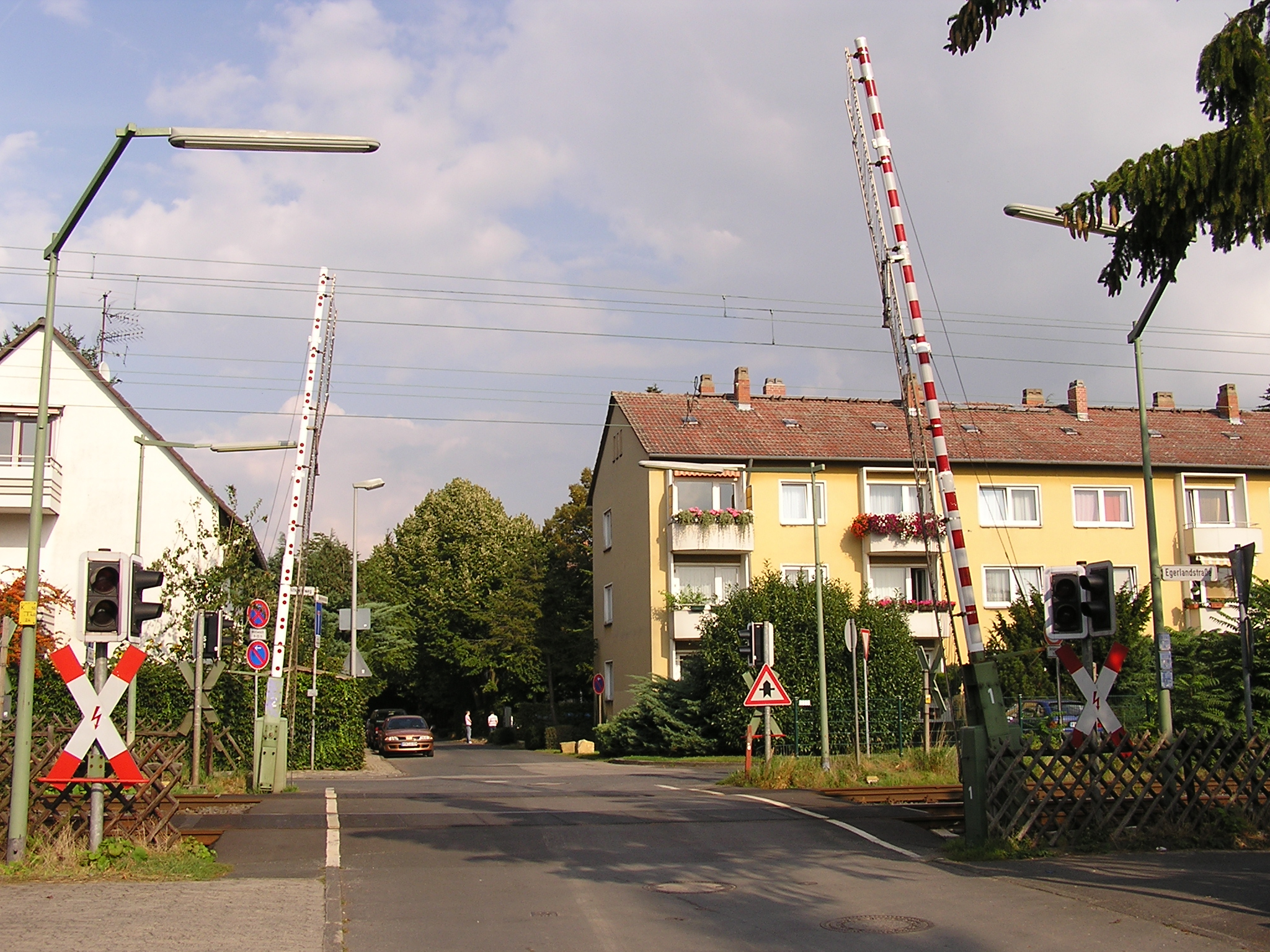 Level crossing with broad gates